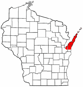 Modified from :Image:Map_of_Wisconsin_highlighting_Door_County.png where public domain statement reads: Public domain map courtesy of The General Libraries, The University of Texas at Austin, modified to show counties. Released under GFDL. See Wikipedia:U.S. county maps. Tomer TALK 19:01, August 12, 2005 (UTC)